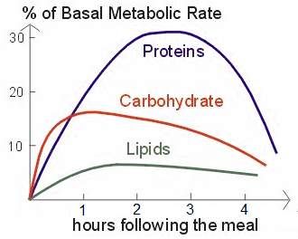 Postprandial thermogenesis by type of food.